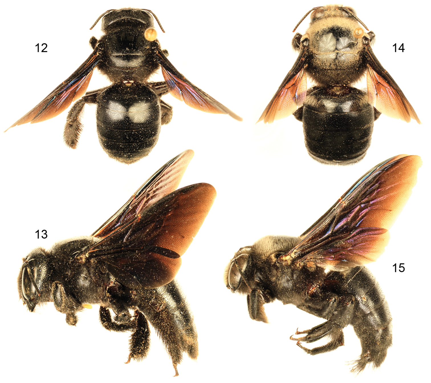 Male and female xylocopa sulcatipes. 12 is a dorsal image of the female, 13 is a lateral image. 14 is a dorsal image of the male, 15 is a lateral image of a male.